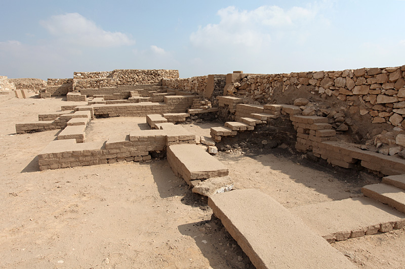 Reconstruction of the southern part of the workshops, Djedefre pyramid, Abu Rawash, Egypt